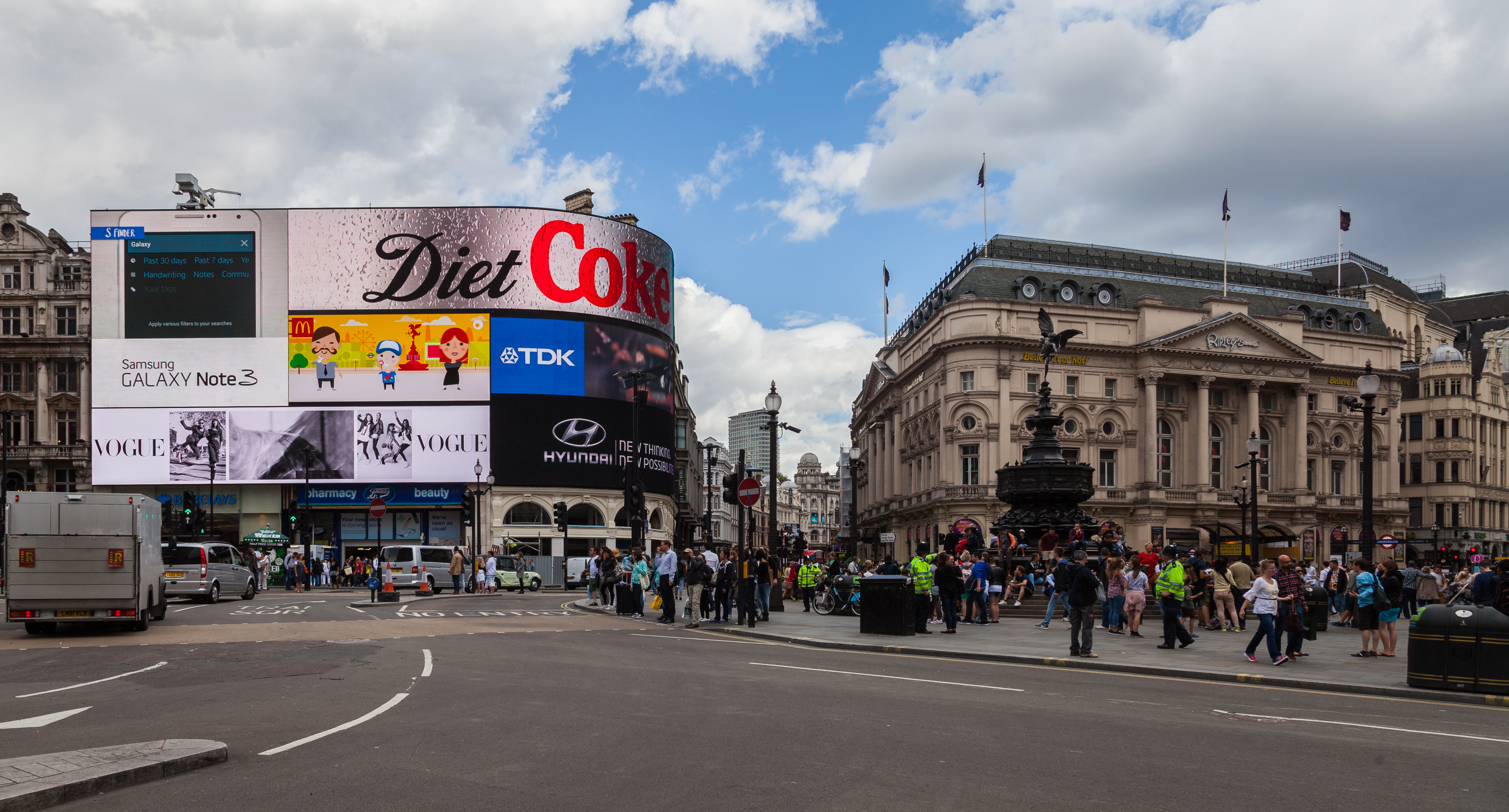 London Pavilion, Piccadilly Circus, London, England